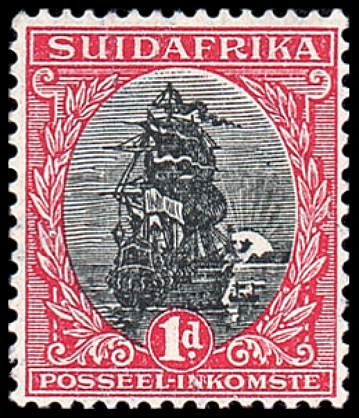 Postage stamp of South Africa, ship of Jan van Riebeek in Capetown, 1d, 1926